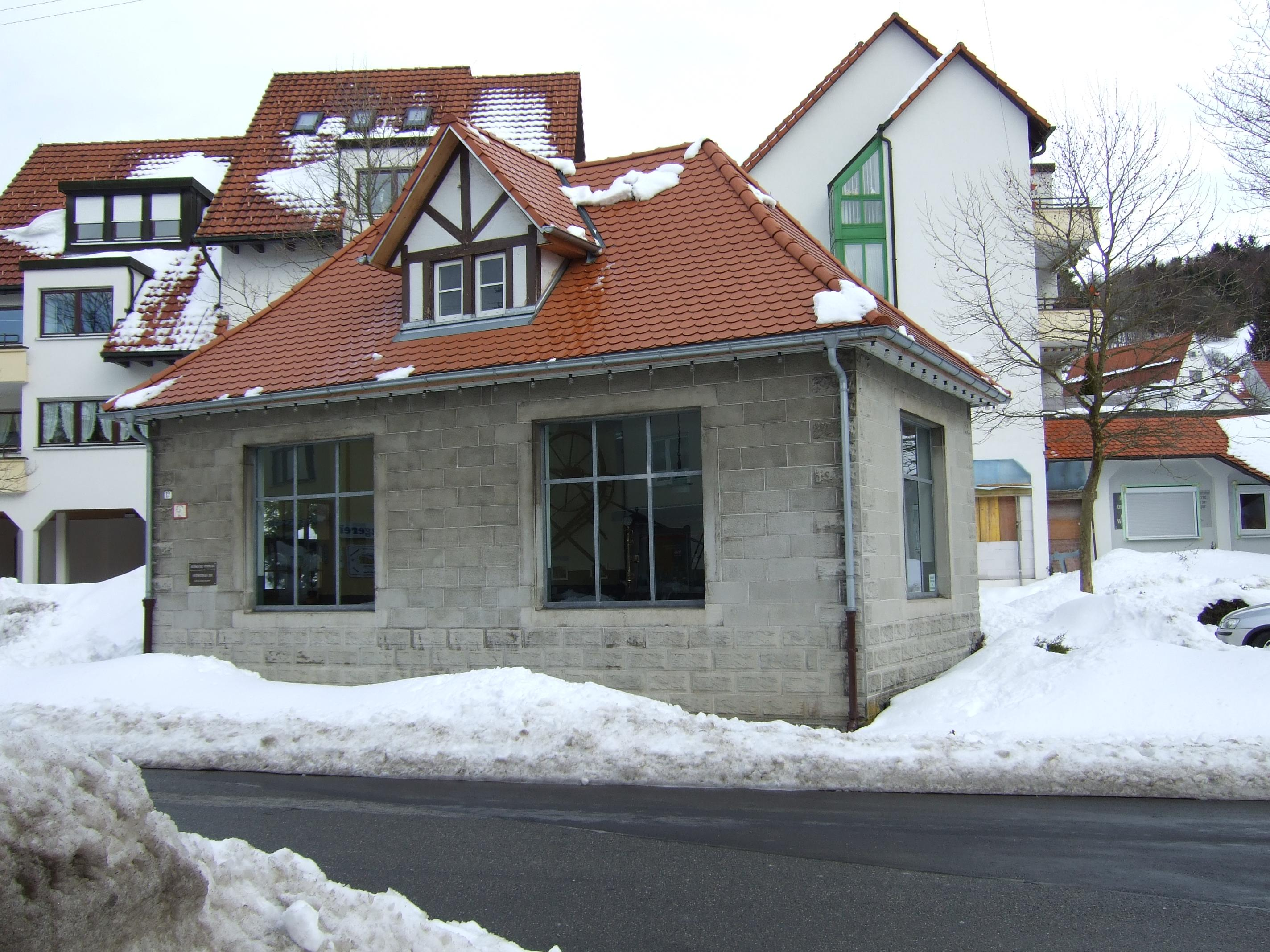 historical pump station onstmettingen